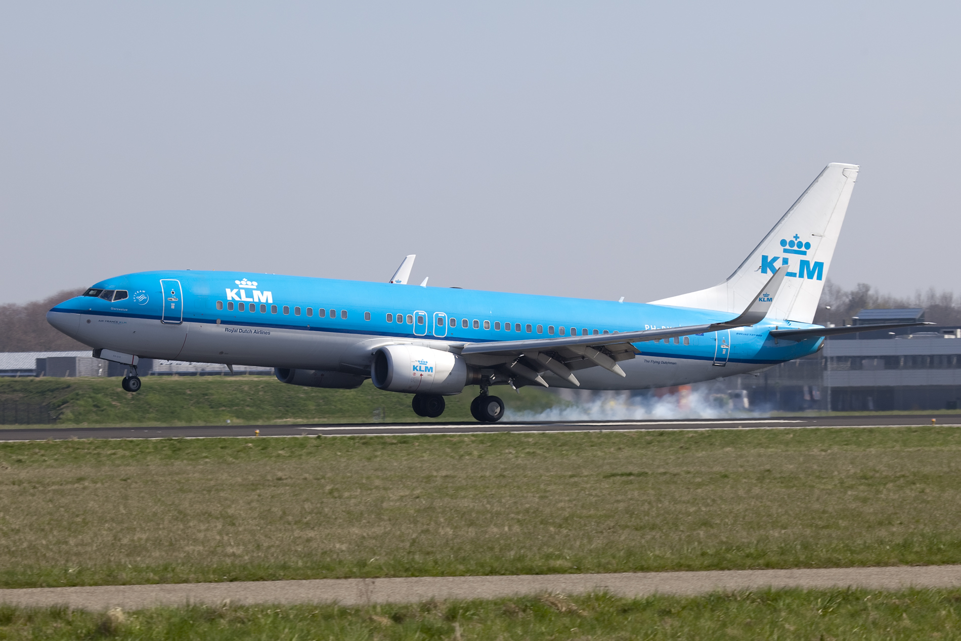 Schiphol